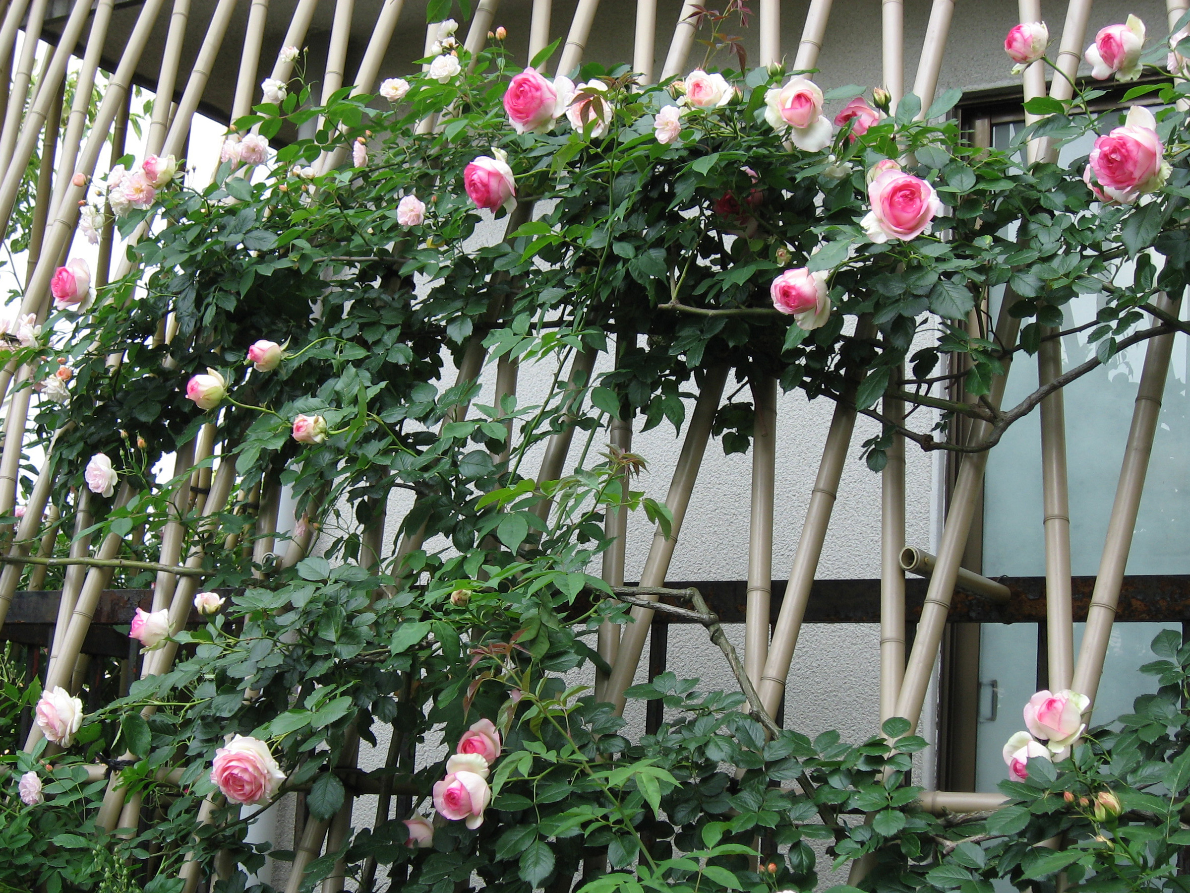 Rosa cv 'Pierre de Ronsard', CL, Meilland (1987), at the English Rose garden of Ofusa-Kannon (temple) Ousa Kashihara, Nara, Japan.